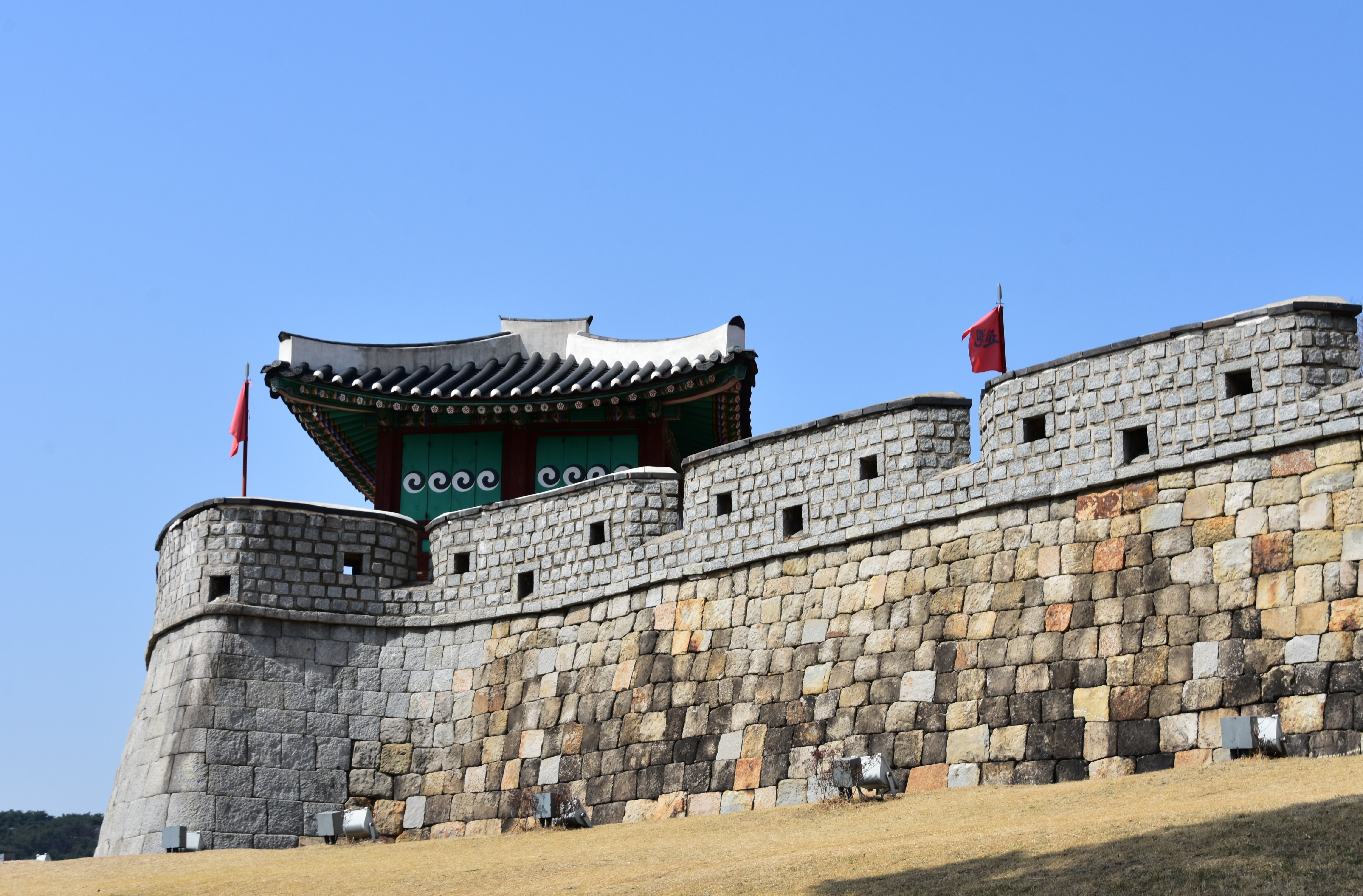 Fortifications of Suwon, late 18th century (7)